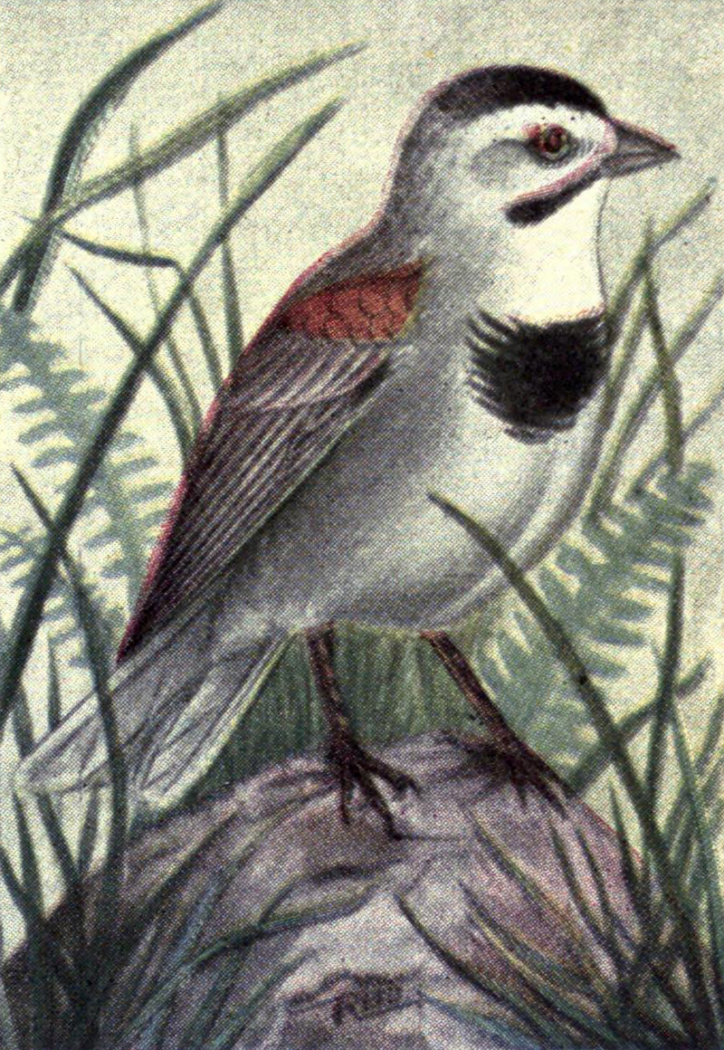 Thick-billed Longspur [formerly McCown's Longspur].